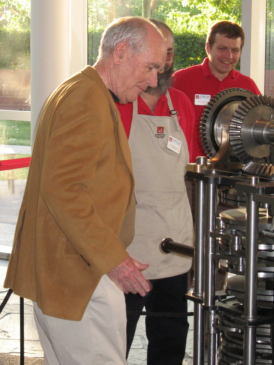 Dr. Ivan Sutherland greets the Babbage difference engine number 2 at the Computer History Museum in Mountain View, CA, USA, on the occasion of his 70th birthday celebration in May of 2008.